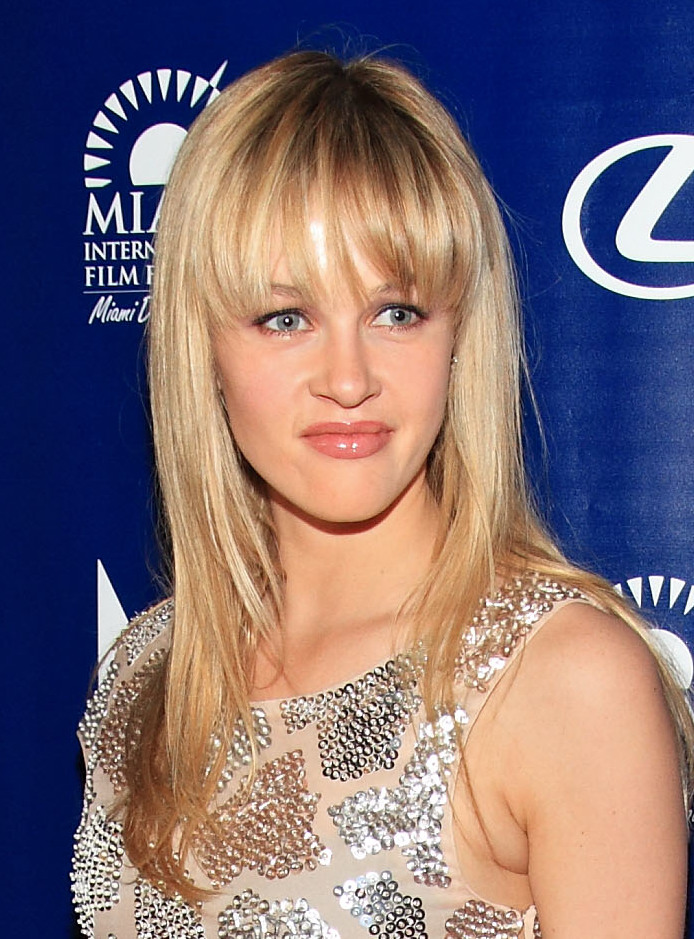 Actress Ambyr Childers at the at the 2011 Miami International Film Festival world premiere of Things Fall Apart at the Gusman Center for the Performing Arts on March 5, 2011